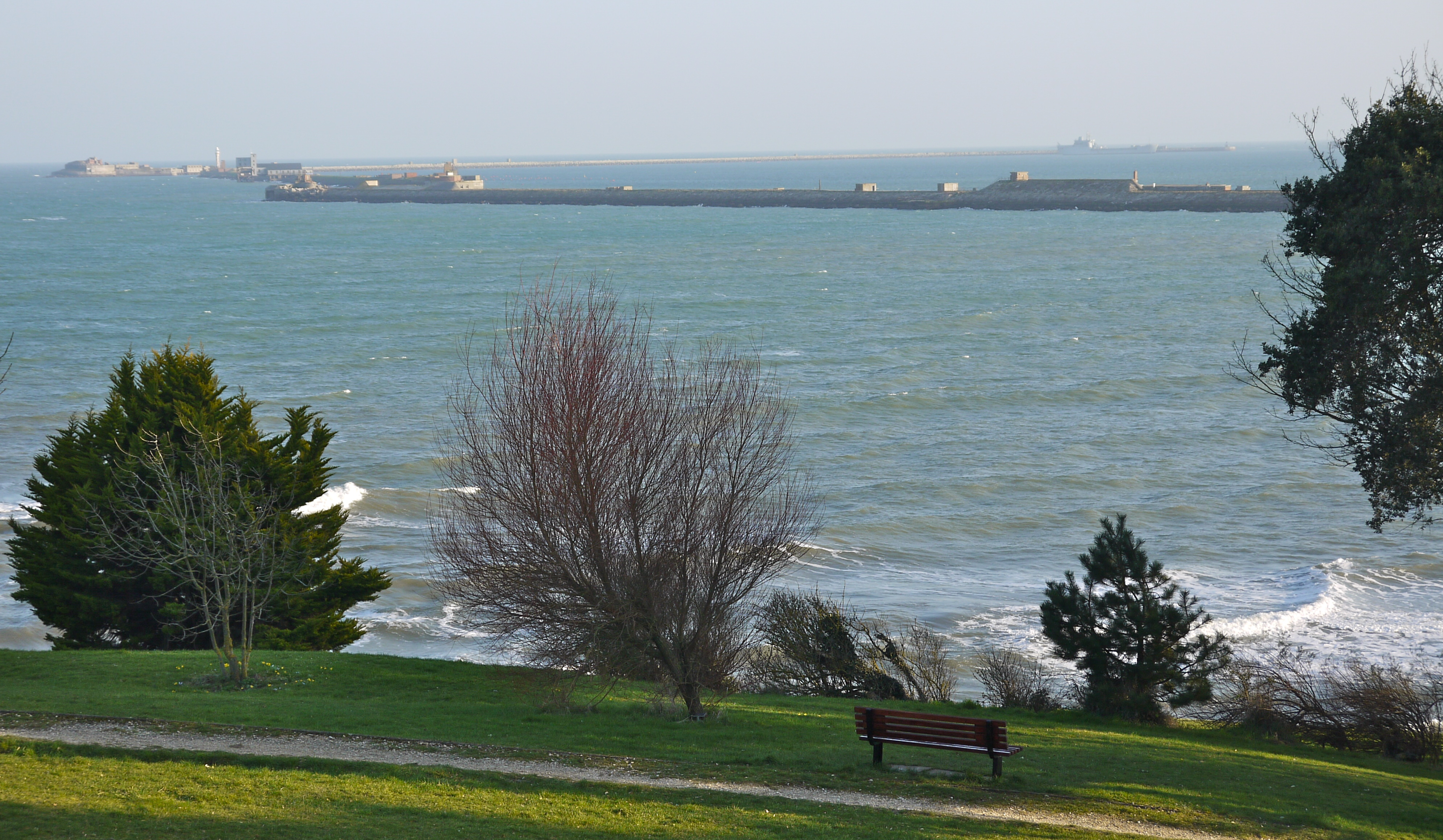 Nothe Gardens, Portland Breakwater, Dorset